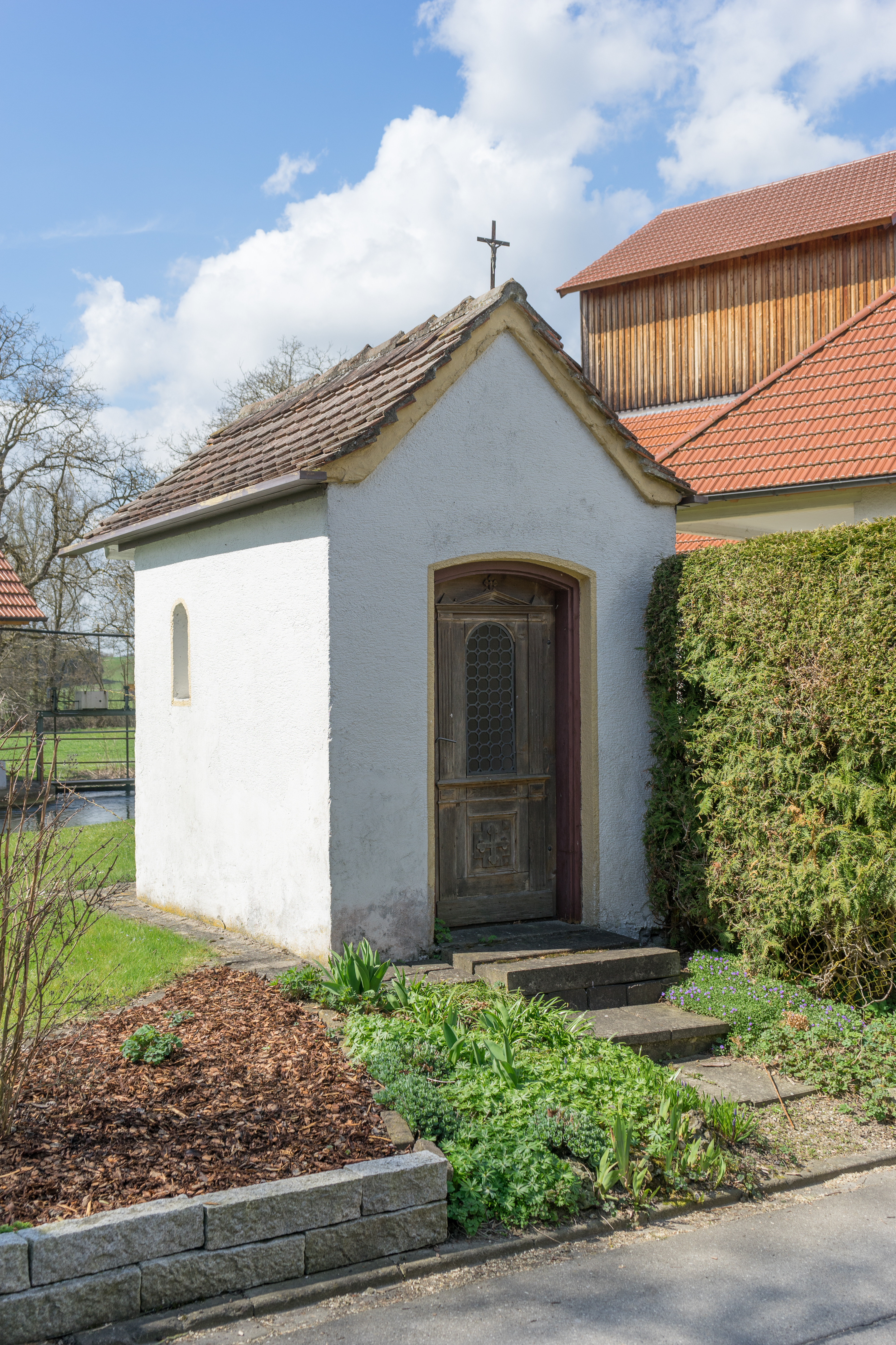 Kapelle (Weinried). Vorderseite.